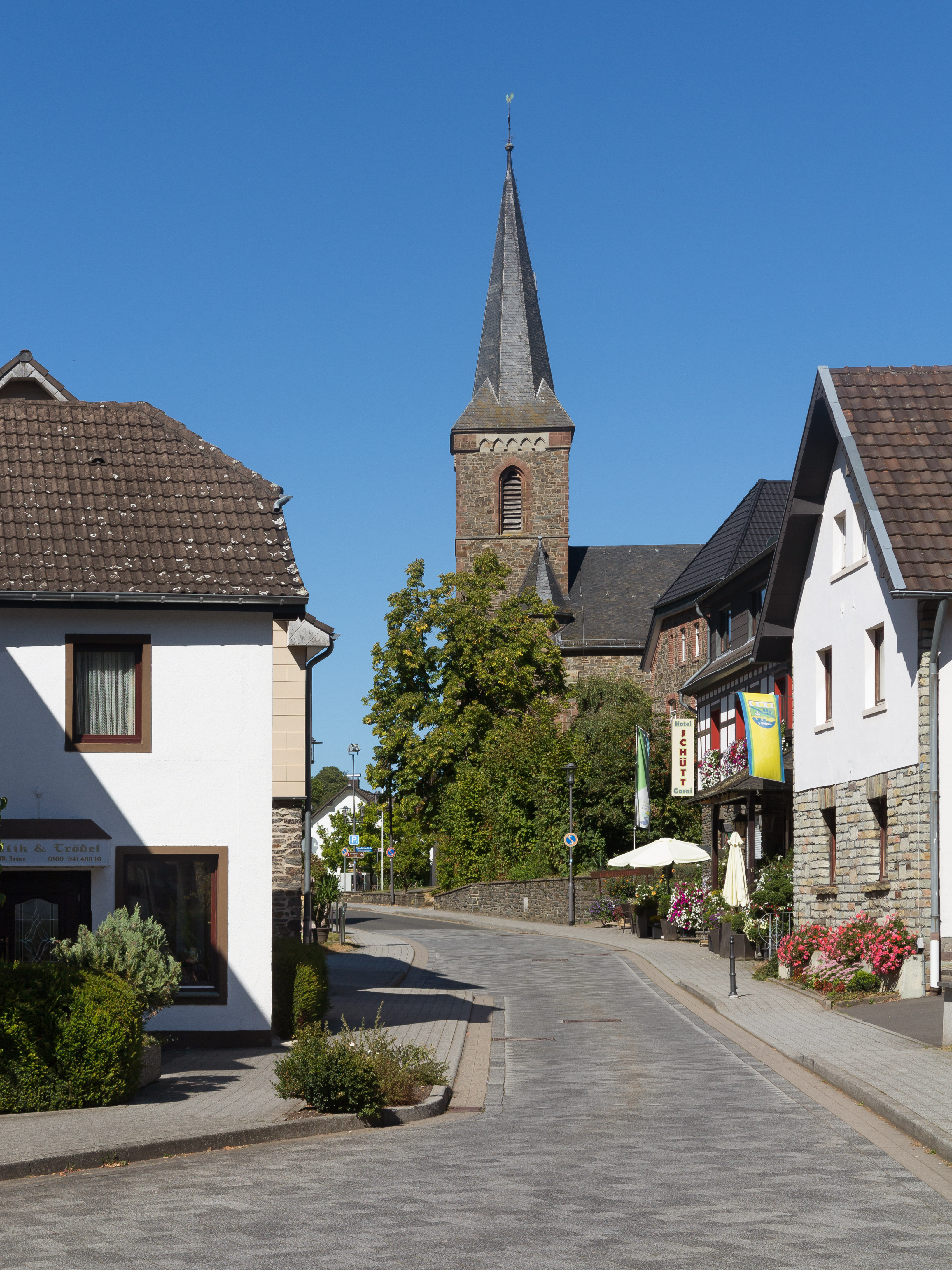 Einruhr, church of St. Nicholas